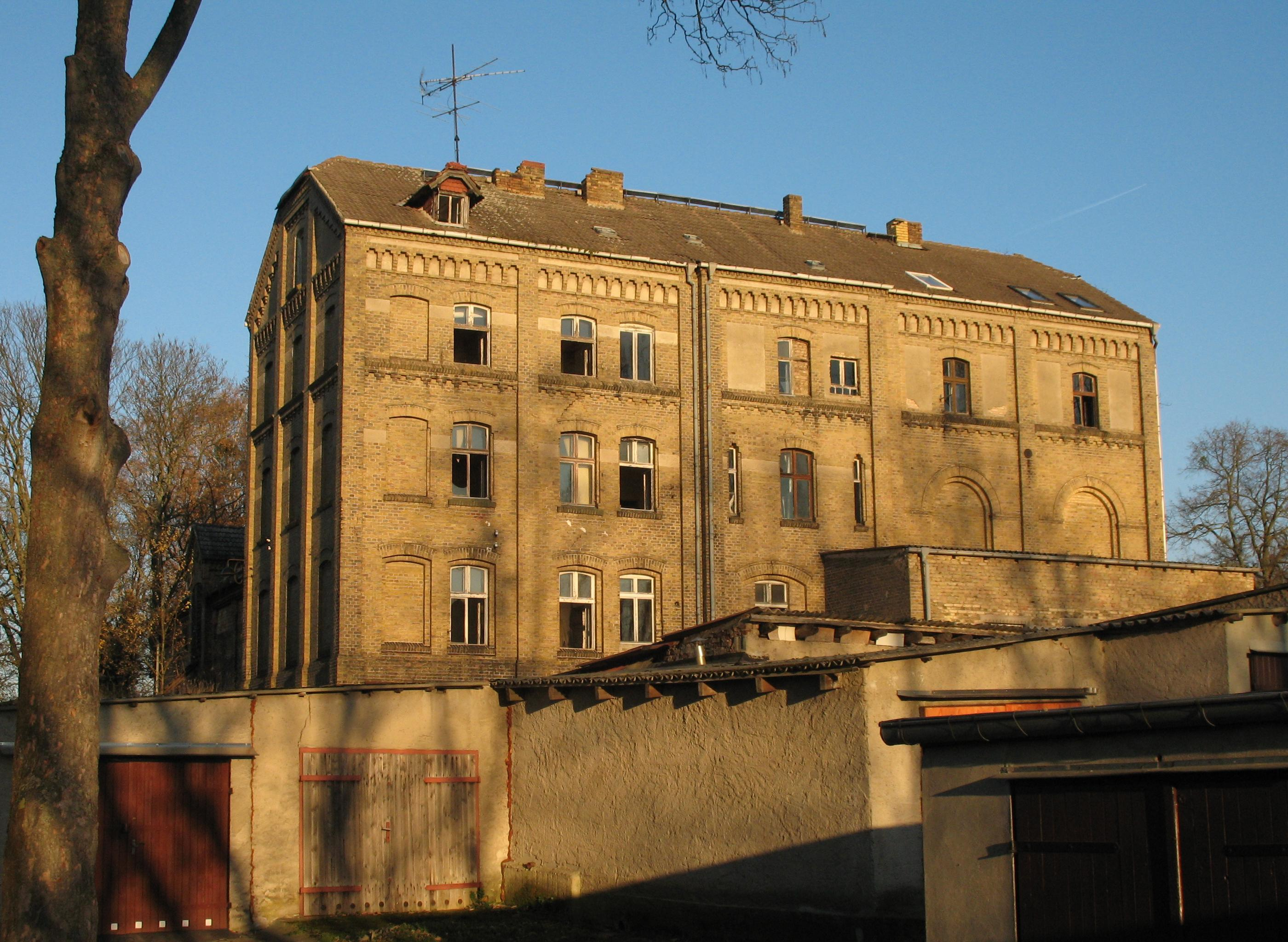 Former brewery in Templin in Brandenburg, Germany